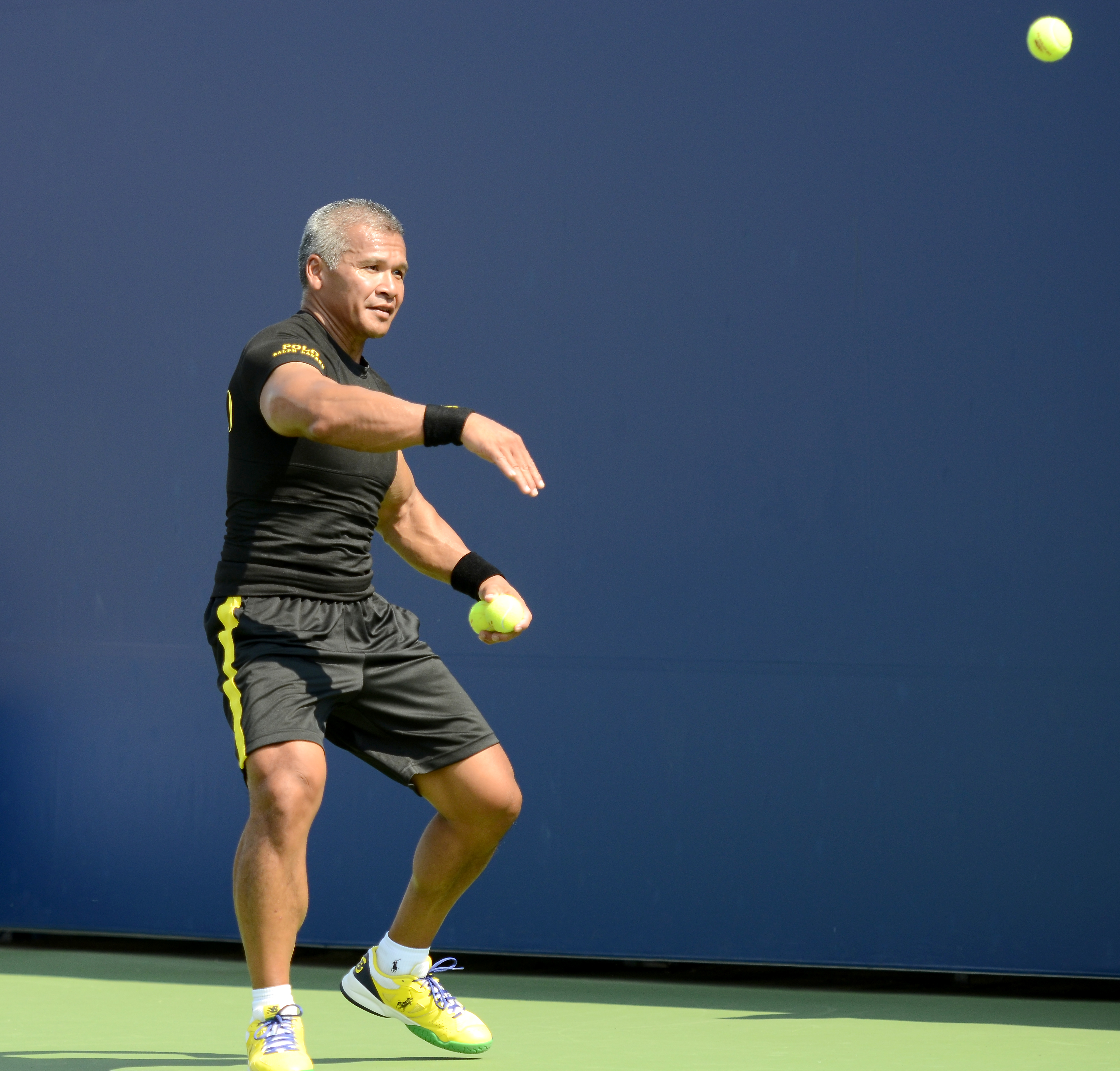 August 26, 2014 Queens, NY Not sure why, but at the Strycova-Barty match on Court 4, there were these adult "ball boys," not kids, and they were wearing these skin-tight black uniforms. What's up with that?